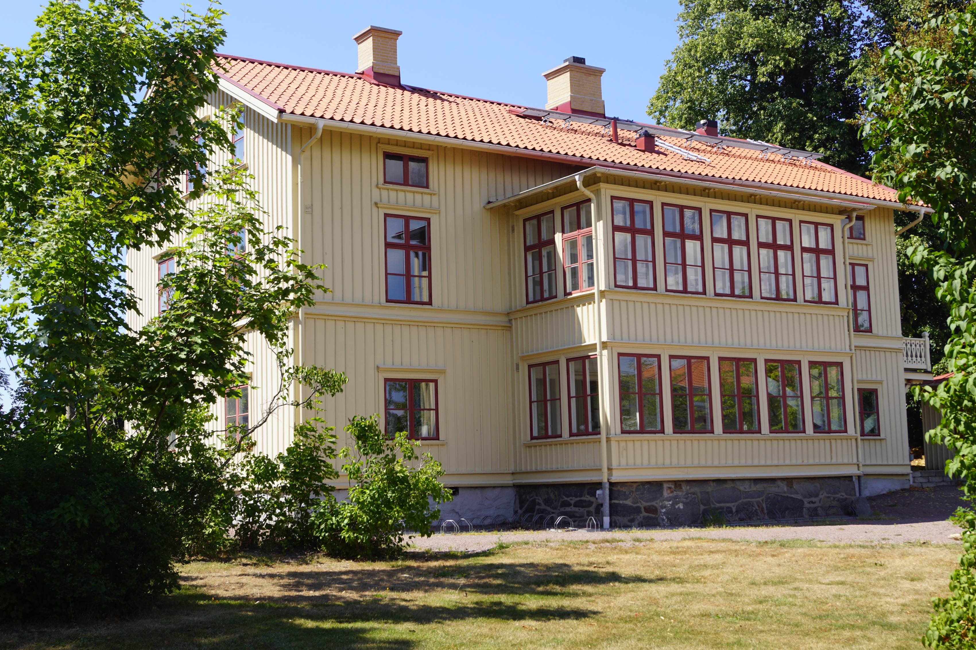 Lindholmen Mansion in Göteborg Municipality, Västra Götaland County, Sweden.